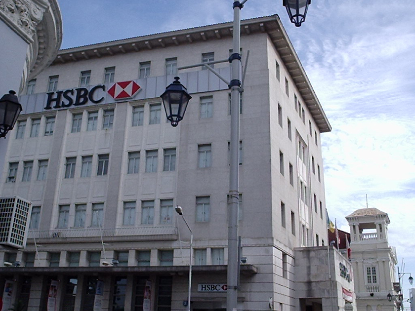 Penang HSBC building